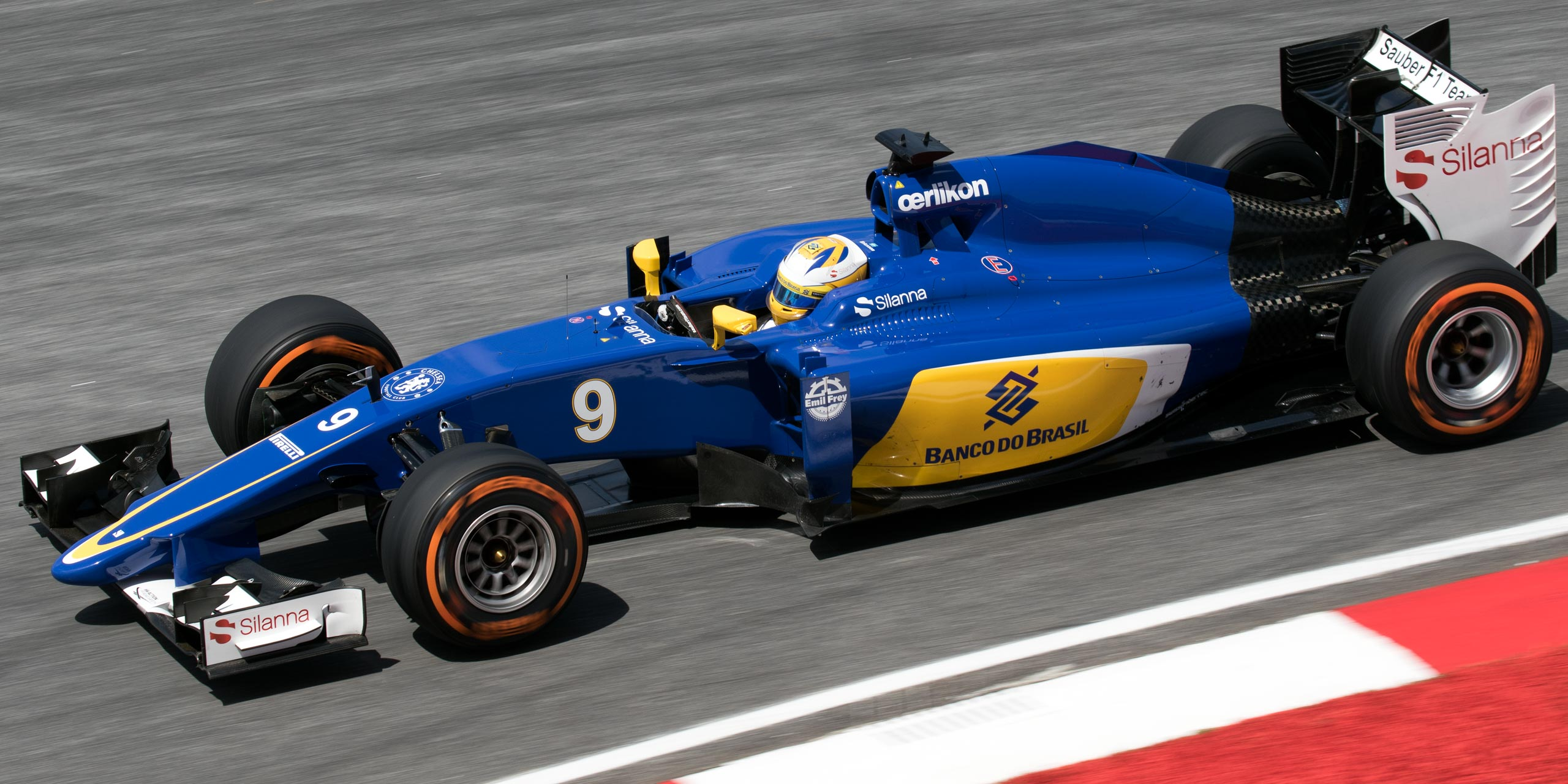 Formula One 2015 Rd.2 Malaysian GP: Marcus Ericsson (Sauber)